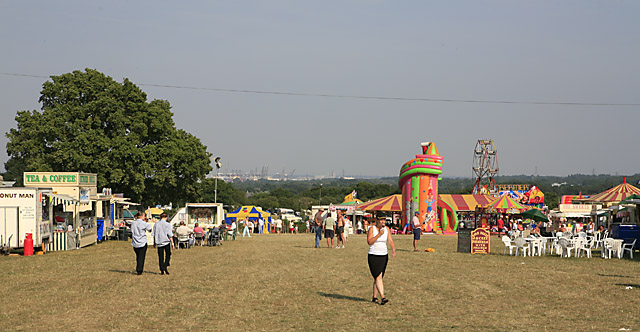 Steam and Craft Fair, Netley Marsh. This appears to be on the land of Hanger Farm. With the cranes of Southampton's docks in background.